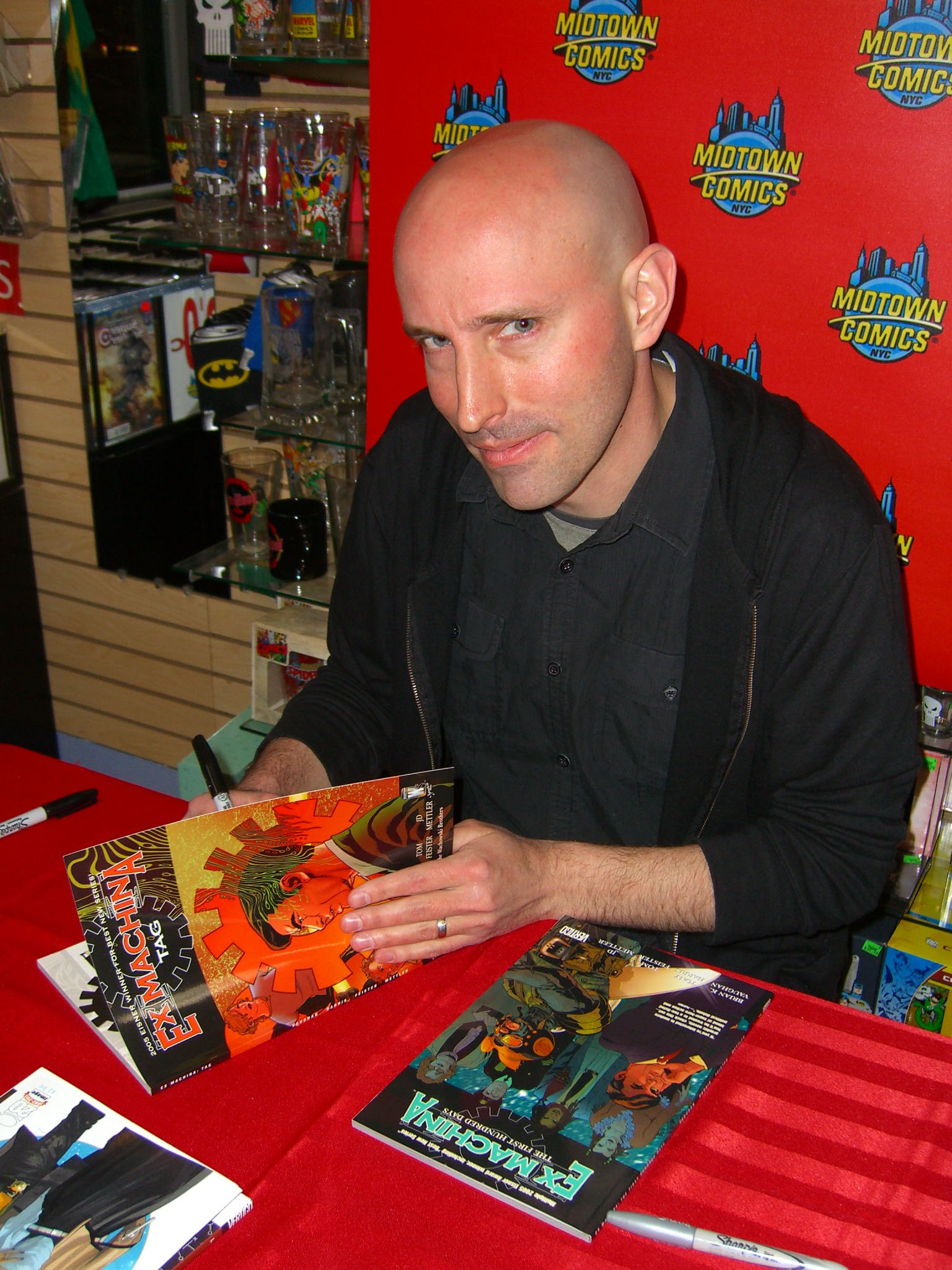 Comics and television writer Brian K. Vaughan at a March 15, 2012 signing for Saga #1 at Midtown Comics Downtown in Manhattan. In the photo, Vaughan is signing copies of Ex Machina (comics), one of the previous series that he created and wrote. This photo was created by Luigi Novi. It is not in the public domain, and use of this file outside of the licensing terms is a copyright violation.